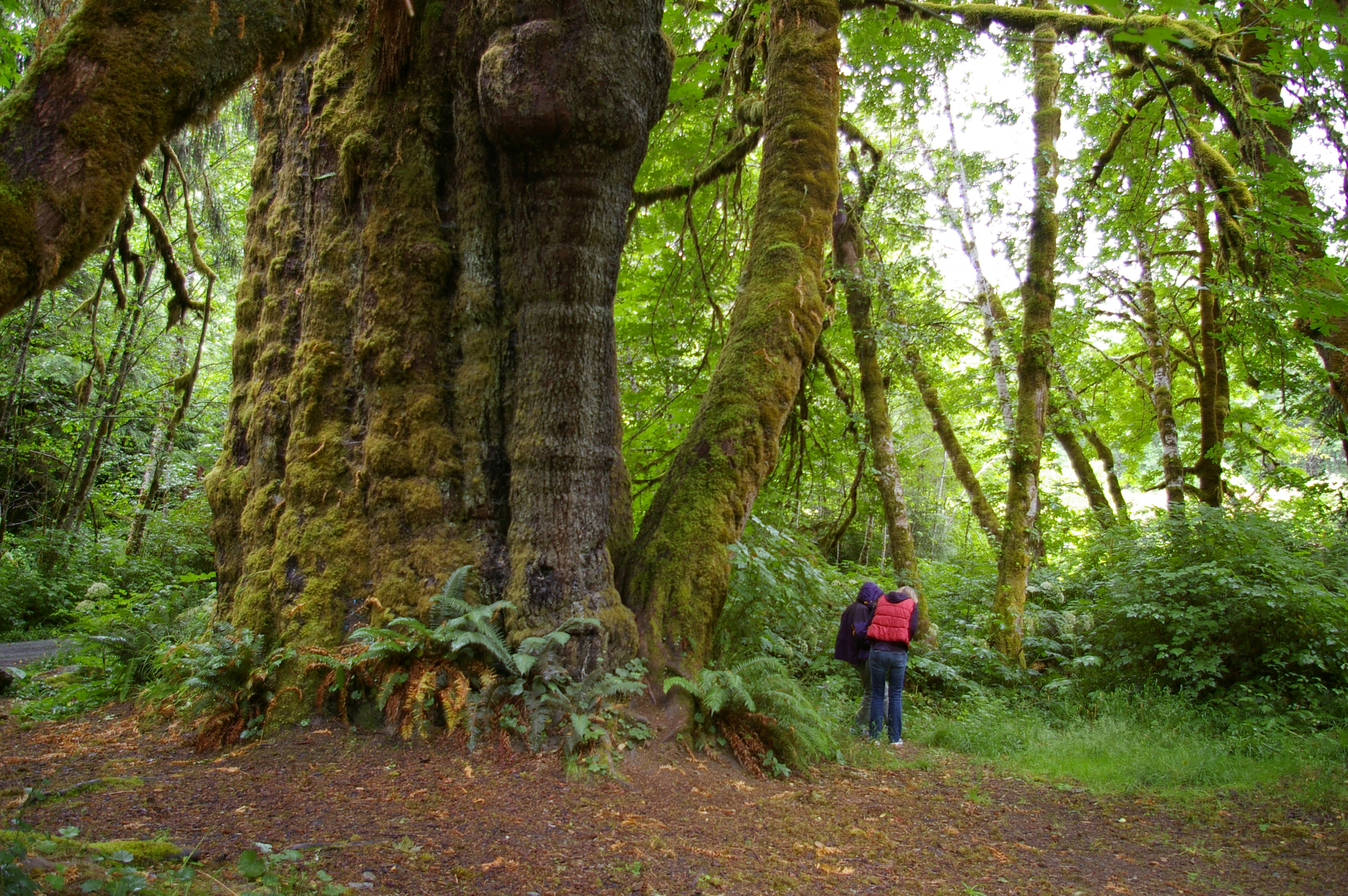 The San Juan Spruce: Canada's Largest Sitka Spruce